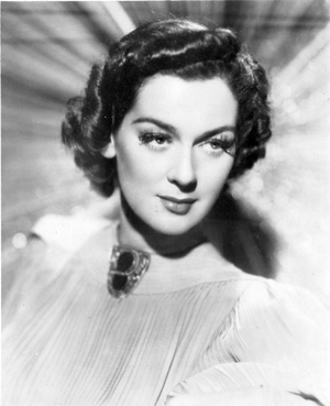 Publicity still of actress Rosalind Russell for Craig's Wife, a film from 1937.